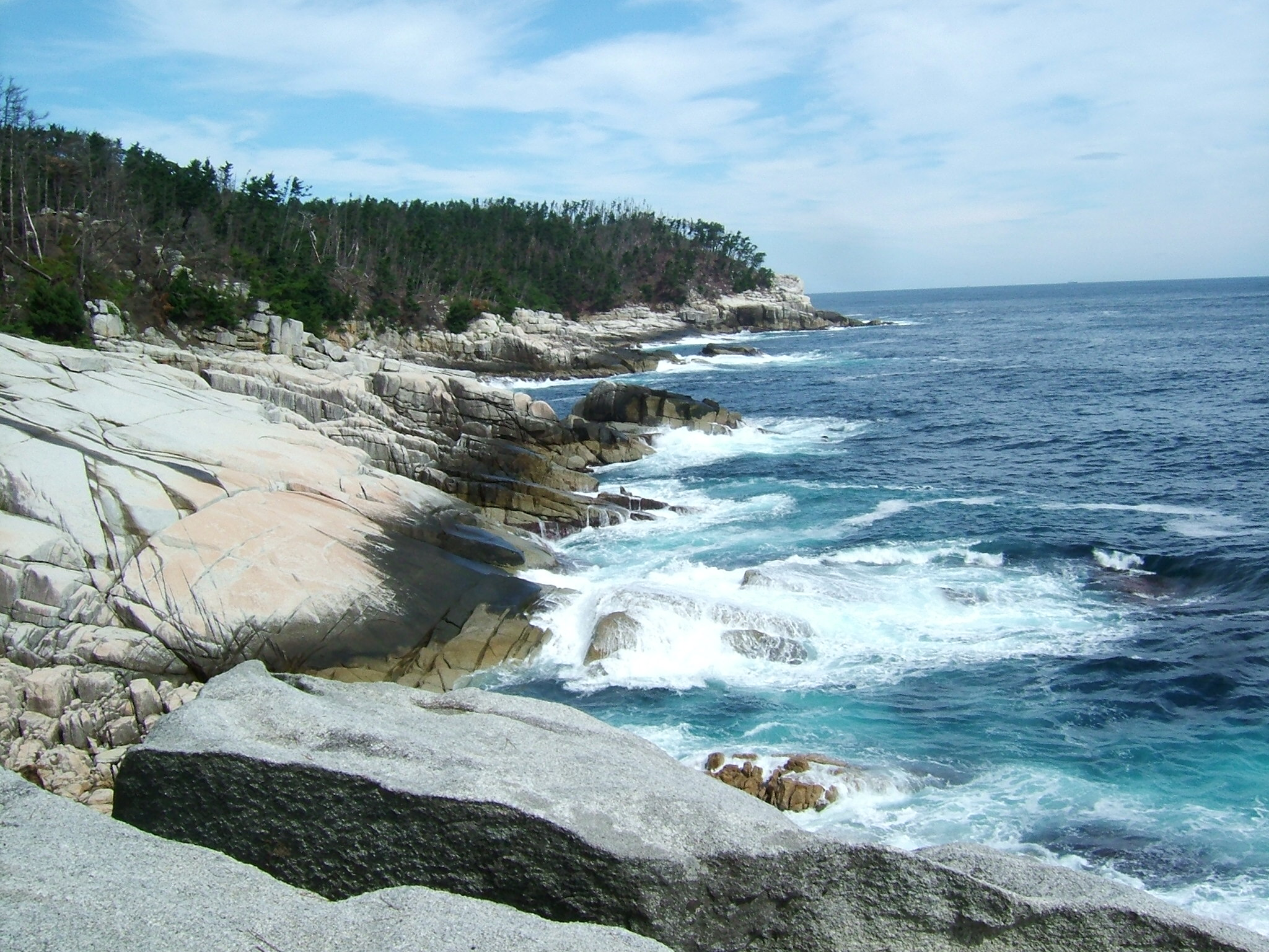 This is the Senjojiki area on the eastern shore of Kinkasan, Miyagi Prefecture, Japan. I took this photo with a digital camera on 3rde October 2006.